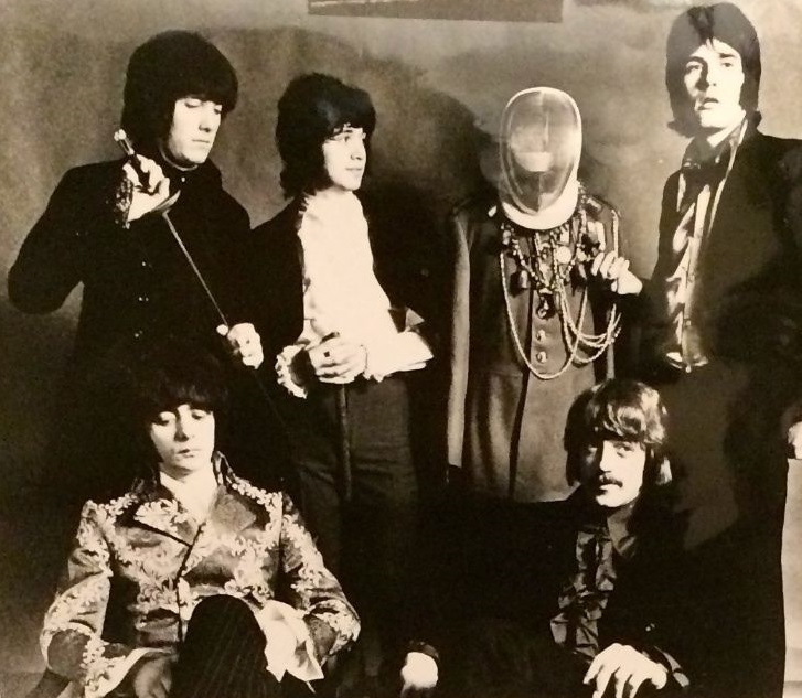 British rock band Deep Purple.